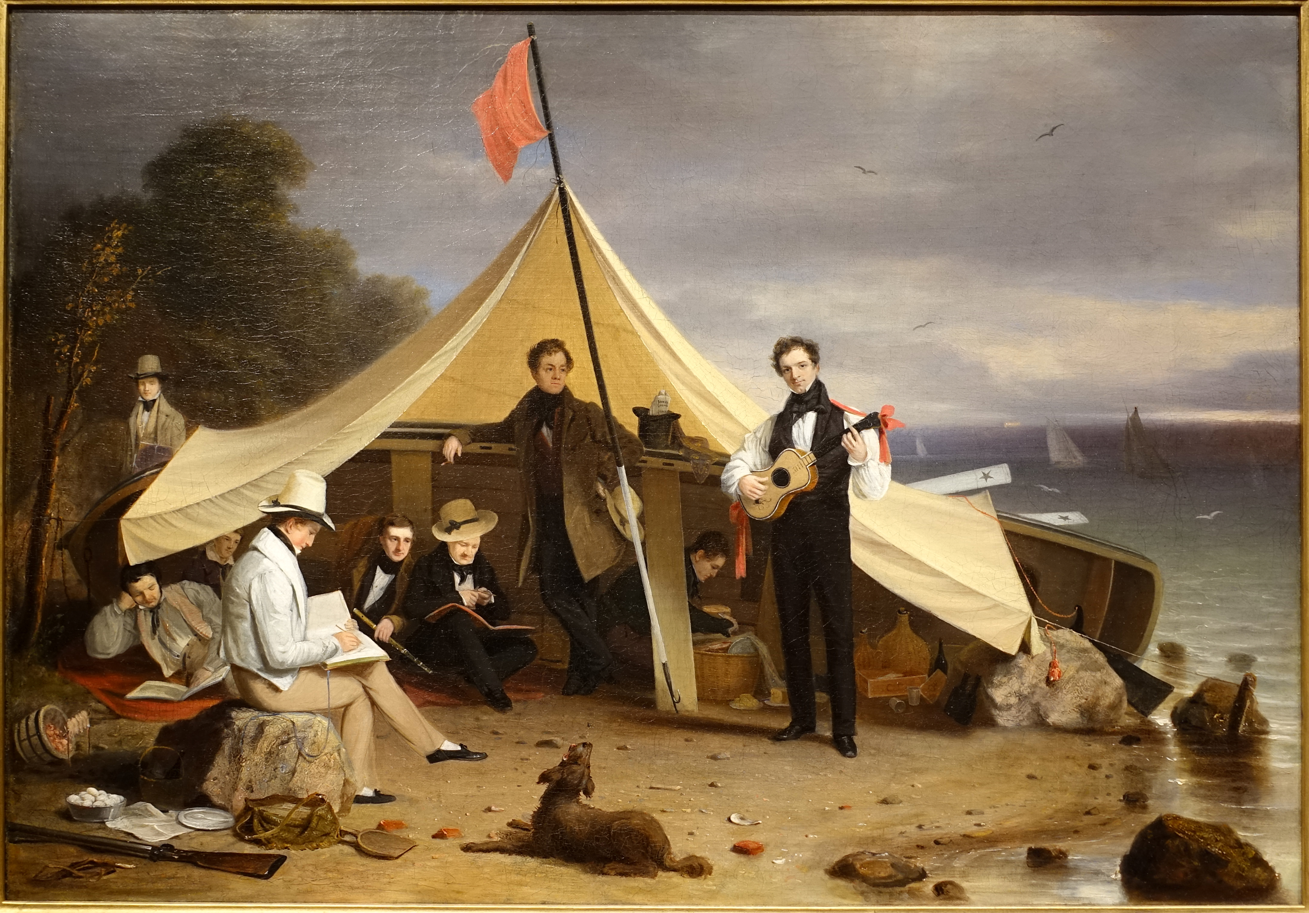 Exhibit in the Princeton University Art Museum - Princeton University, Princeton, New Jersey, USA.